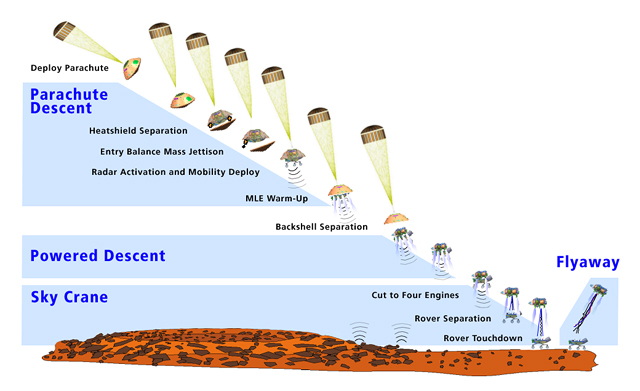 Mars Science Laboratory (MSL) landing diagram for parachute descent, powered descent, and sky crane.